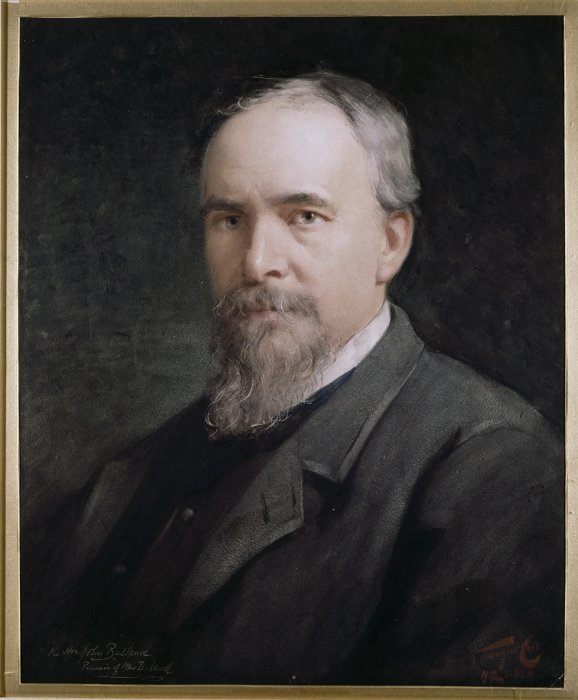 Portrait of John Ballance.